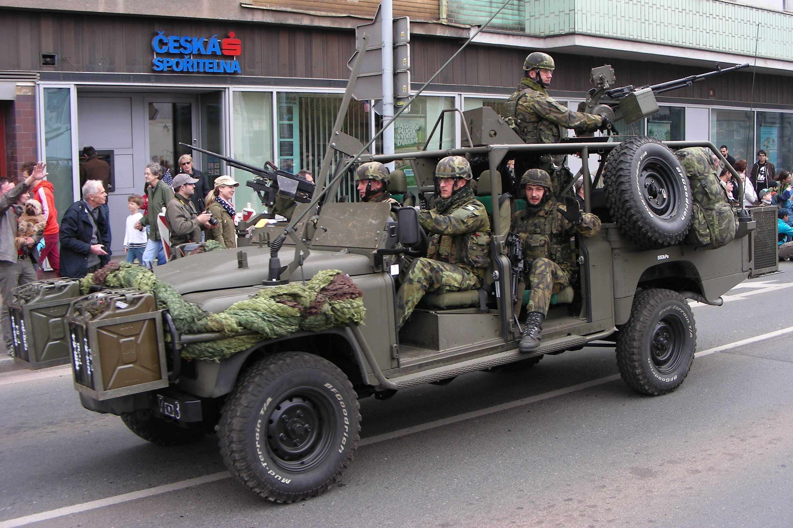 Land Rover Defender 130 Kajman in Pilsen, 2015